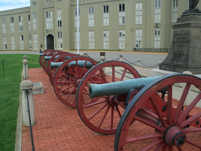 VMI cadet battery, Lexington, VA